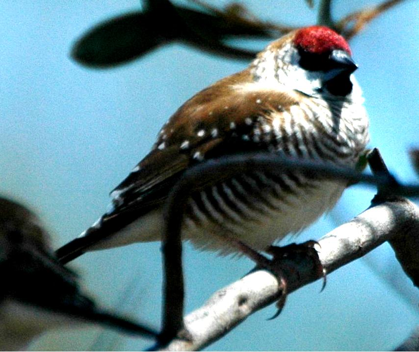 Plum-headed Finch Neochmia modesta Jandowae, S. Queensland, Australia